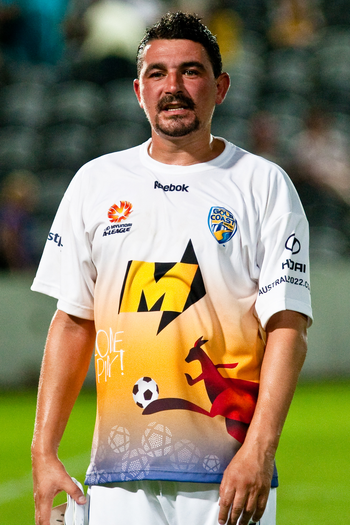 Charlie Miller after playing for Gold Coast United against the Central Coast Mariners.